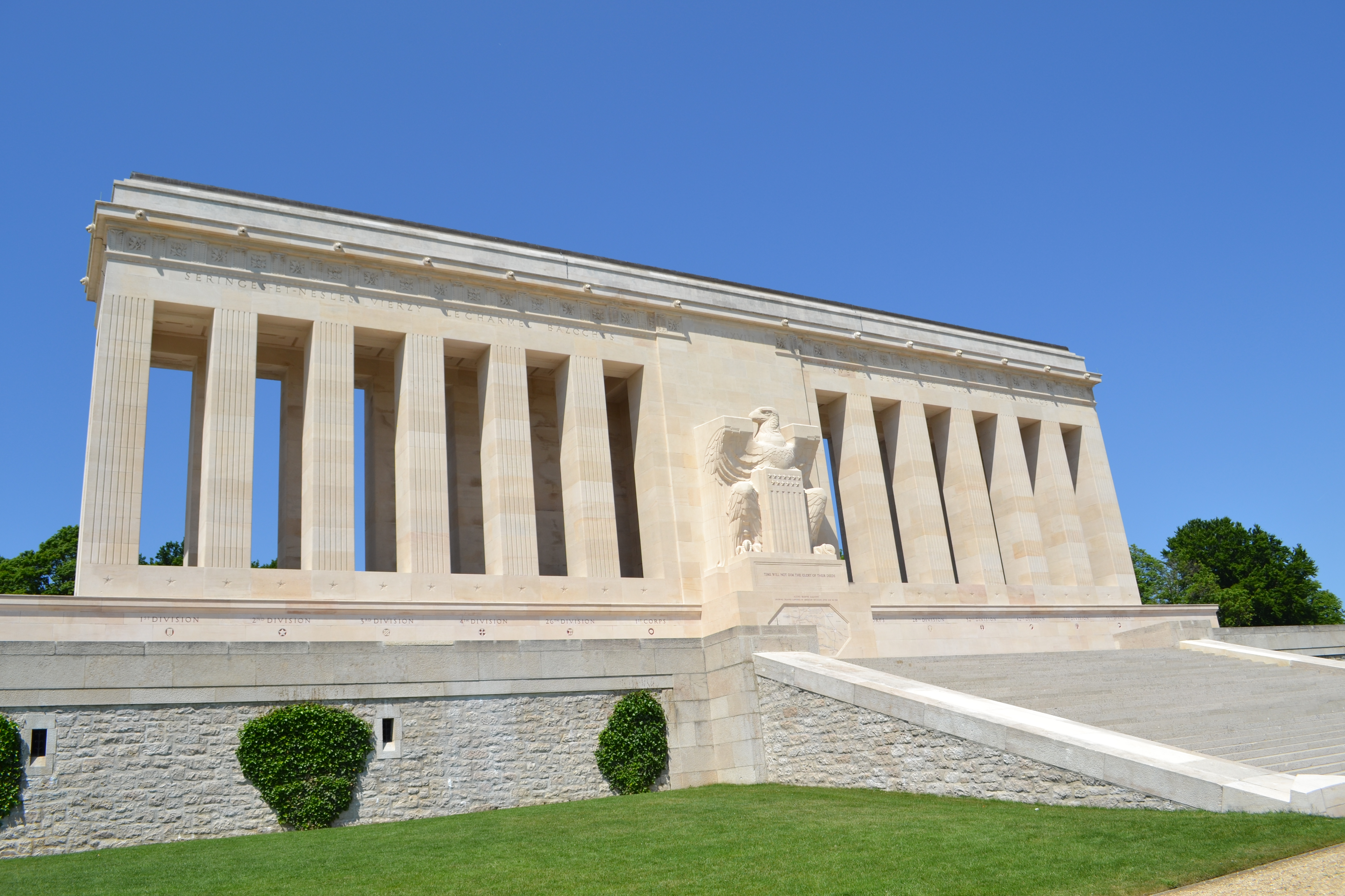 30th Infantry Division Monument Front2